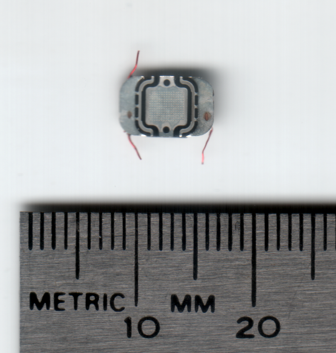 The front of the PayPass RFID chip I removed from my Mastercard. Details [1] See also Image:Paypass chip back.png